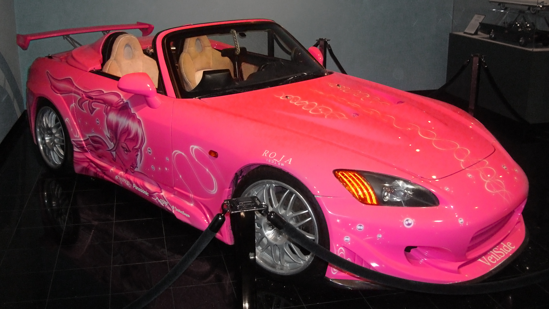 Honda S2000 from the movie 2 Fast 2 Furious at the Petersen Automotive Museum.